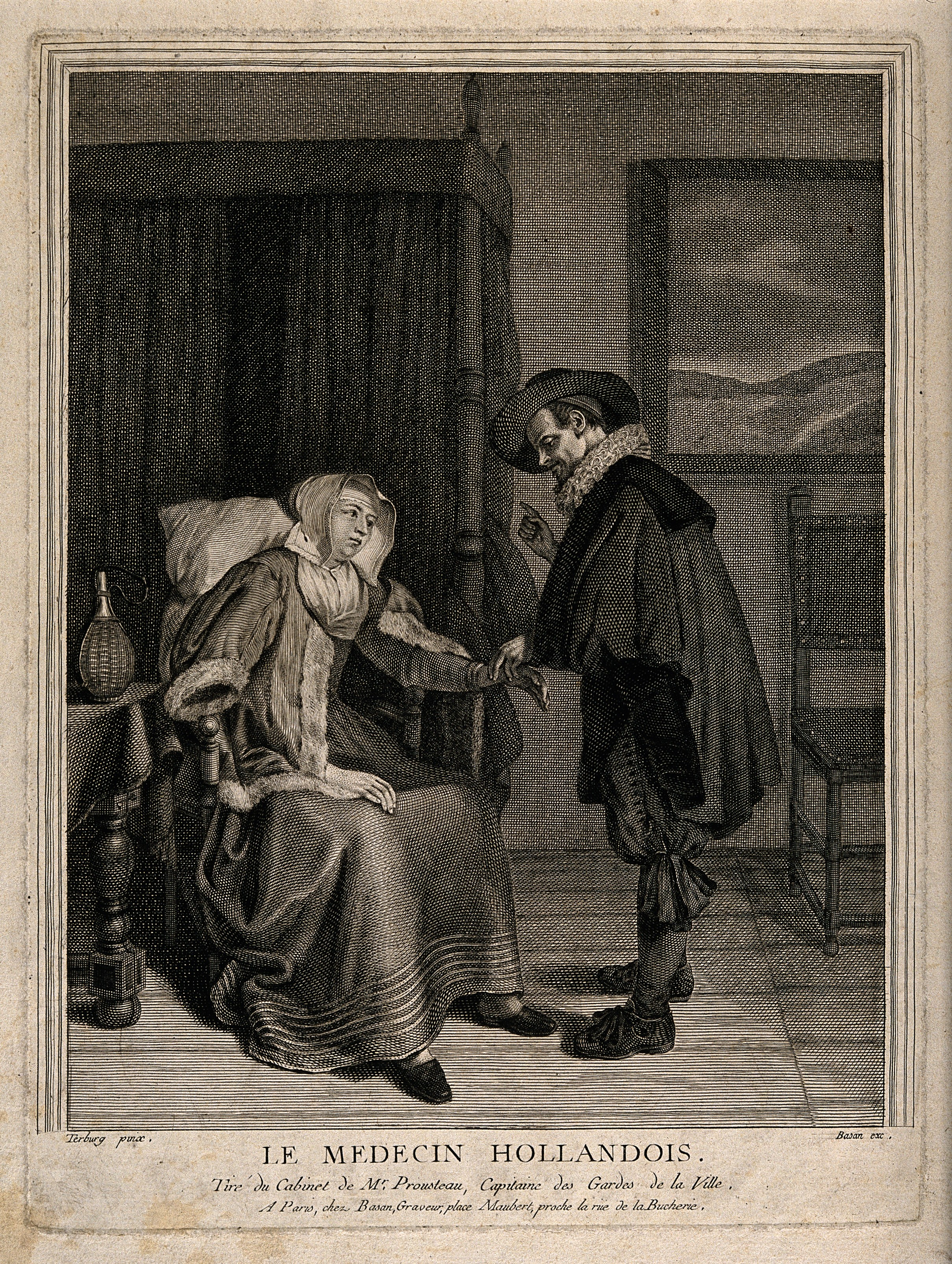 A Dutch physician taking the pulse of a female patient, a urine flask in a wicker basket is on a table beside them. Engraving by P. Basan, 16--, after G. Ter Borch, the younger. Iconographic Collections Keywords: Gerrit Ter Borch; Pierre-Franc̜ois Basan